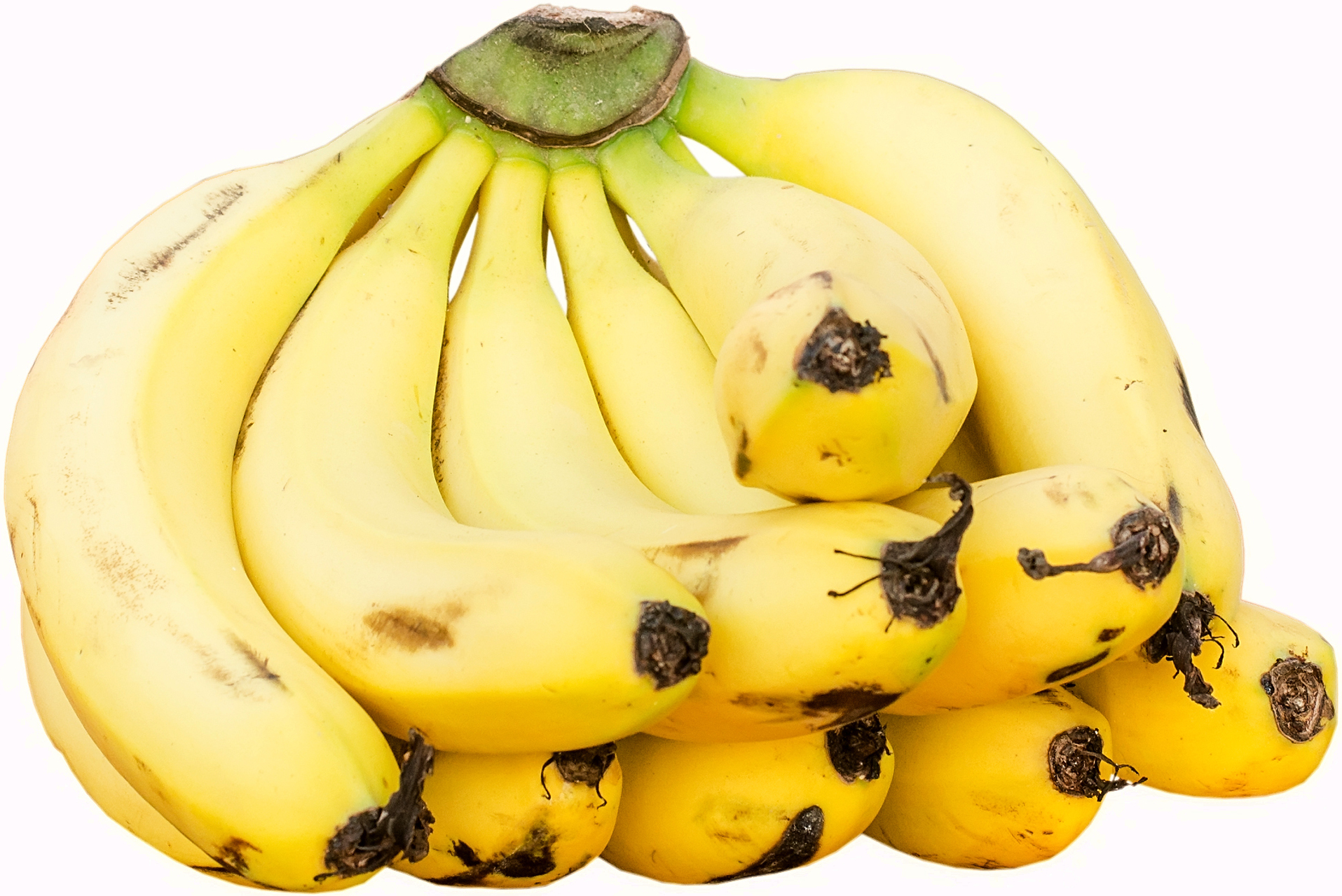 Cavendish